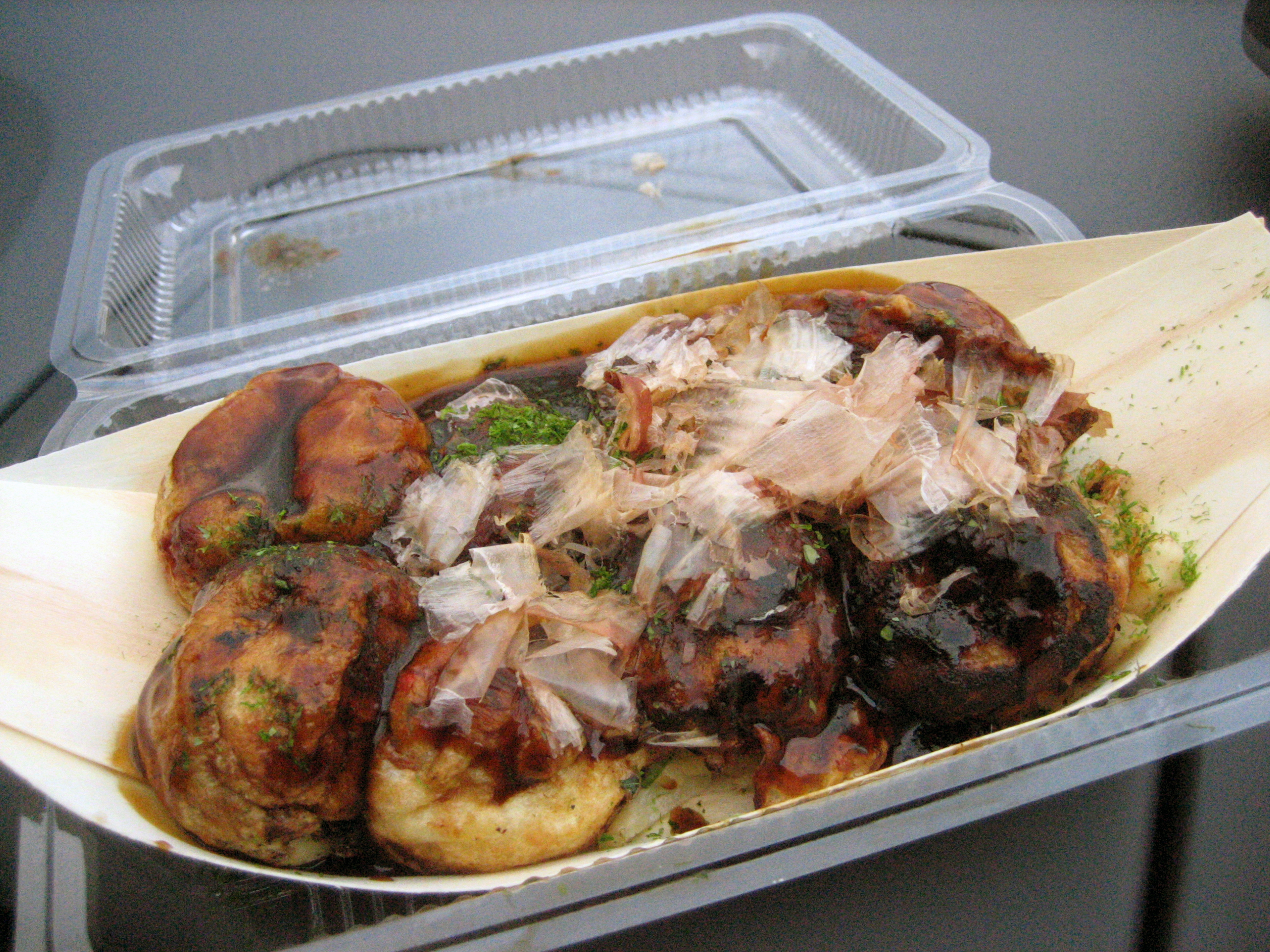 Takoyaki. Put in a container for take-outs.